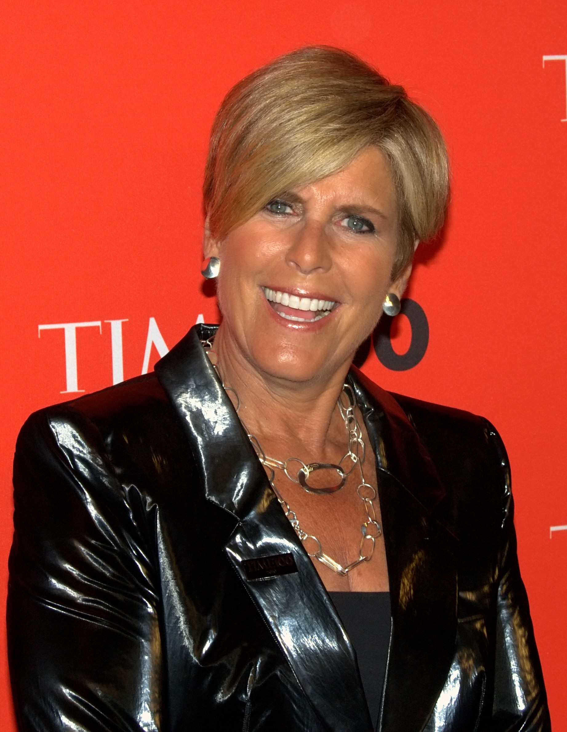 Writer and TV finance expert Suze Orman at the Time 100 Gala, May 3, 2010. Photo by David Shankbone. This photos is licensed under the Attribution 3.0 license, which means it can be used and modified for any purpose only if the author is properly credited where it is used.